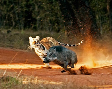 Tiger chasing boar at Tadoba Andhari Tiger Reserve, Maharashtra, India by Bharat Goel, WIldnest team photographer.